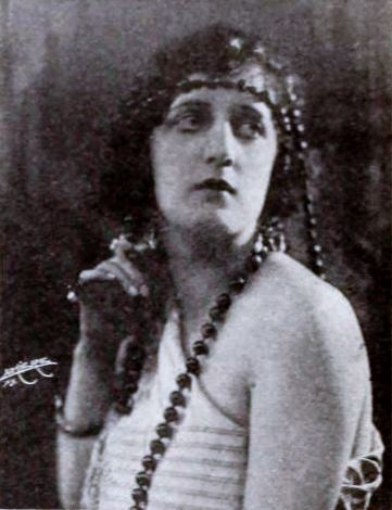 American actress Peggy Shanor (1896 – 1935), on page 51 of the January 3, 1920 Exhibitors Herald.